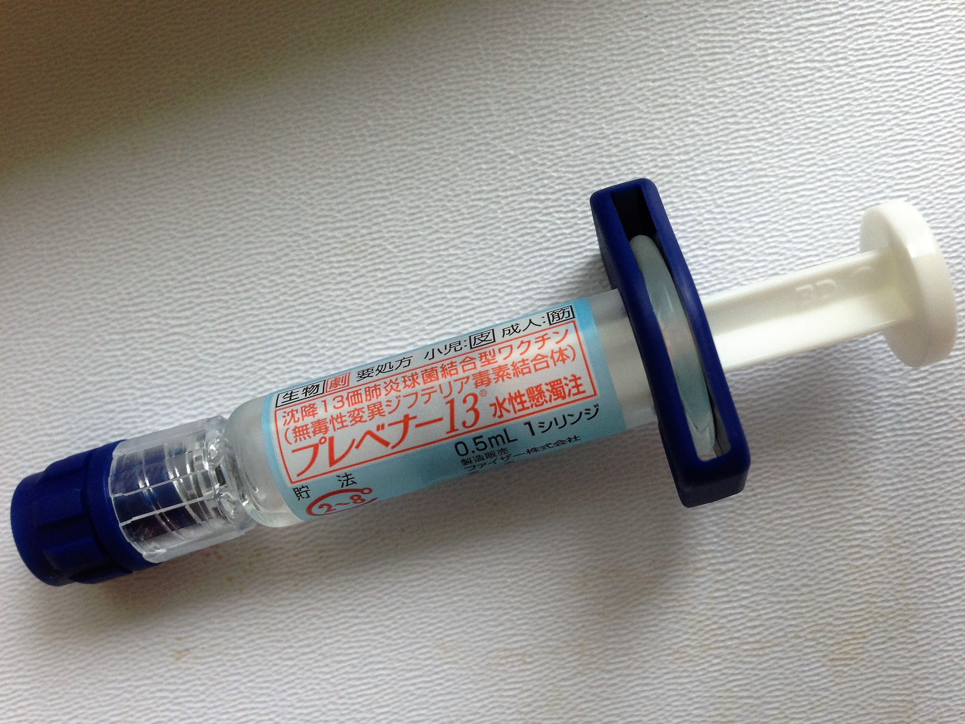 Prevenar-13 Suspension Liquid for Injection JAPAN 2013